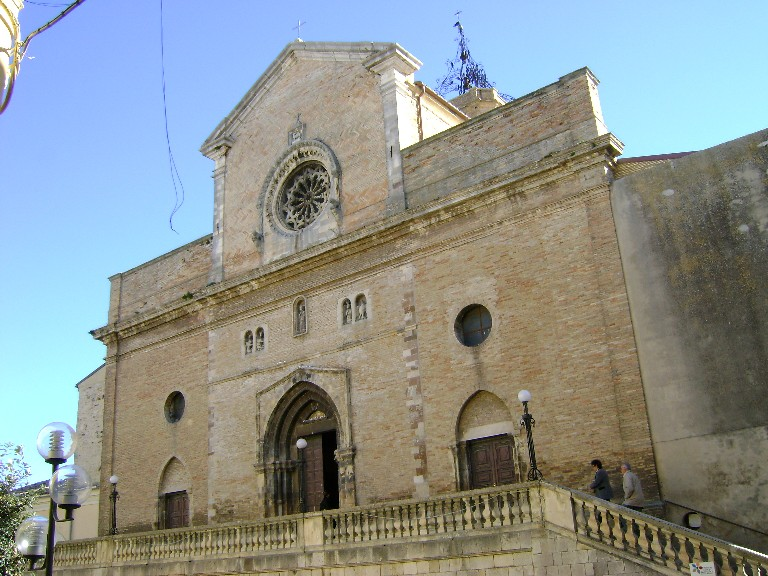 The cathedral of St. Leucio to Atessa